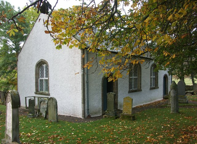 Croick Old Parish Church. Croick Church was built, with Government Grants, in 1827 at a cost of £1527 to plans by Thomas Telford. Glencalvie was cleared in 1845 and the names of many of the people evicted can be seen scratched in the windows of the church.